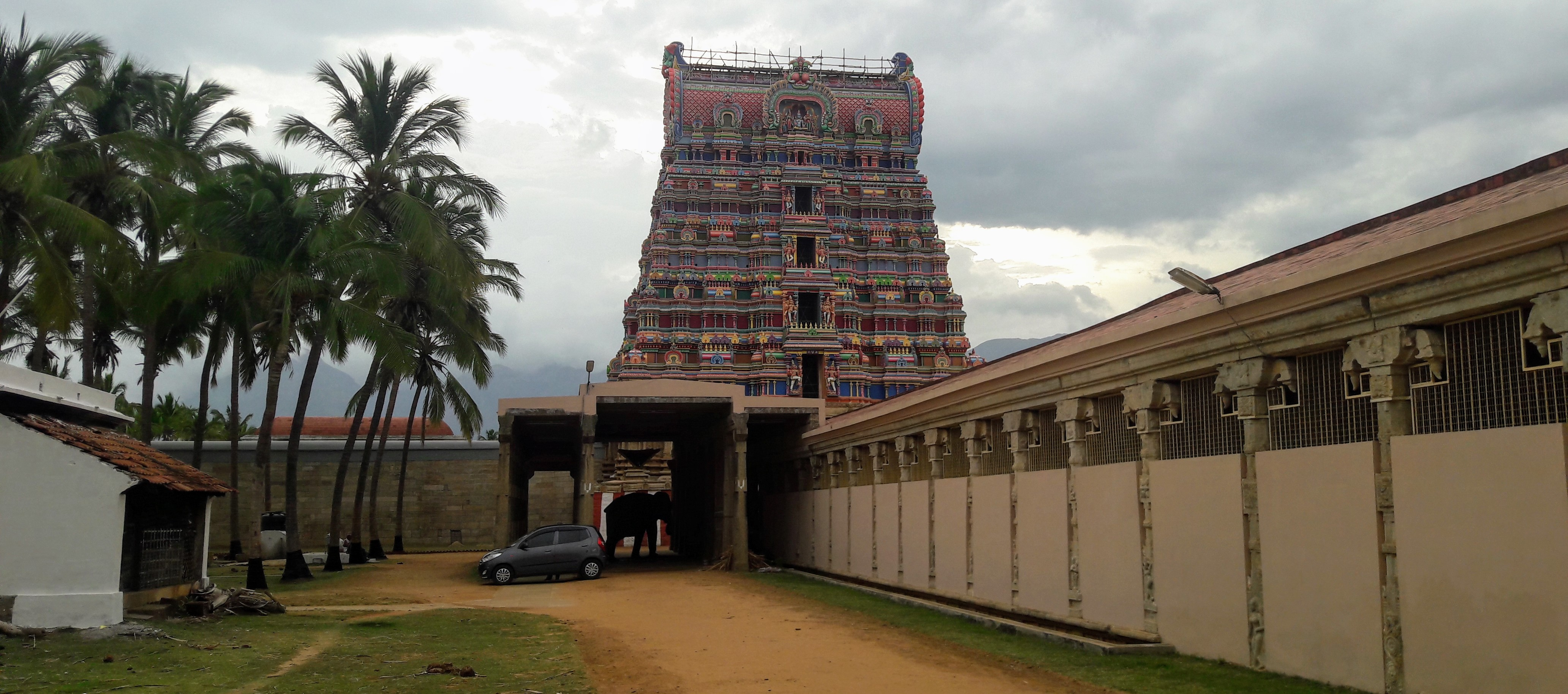 Vaishnava Nambi and Thirukurungudivalli Nachiar temple tower at Thirukurungudi.